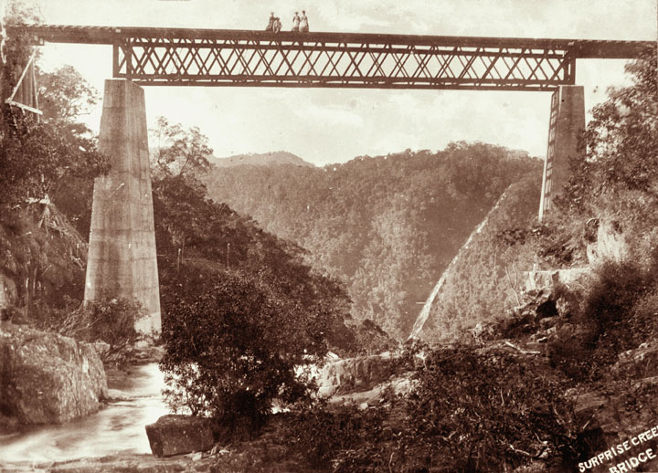 Surprise Creek Bridge, Cairns-Herberton Railway. (Register listing indicates Barron Gorge.)